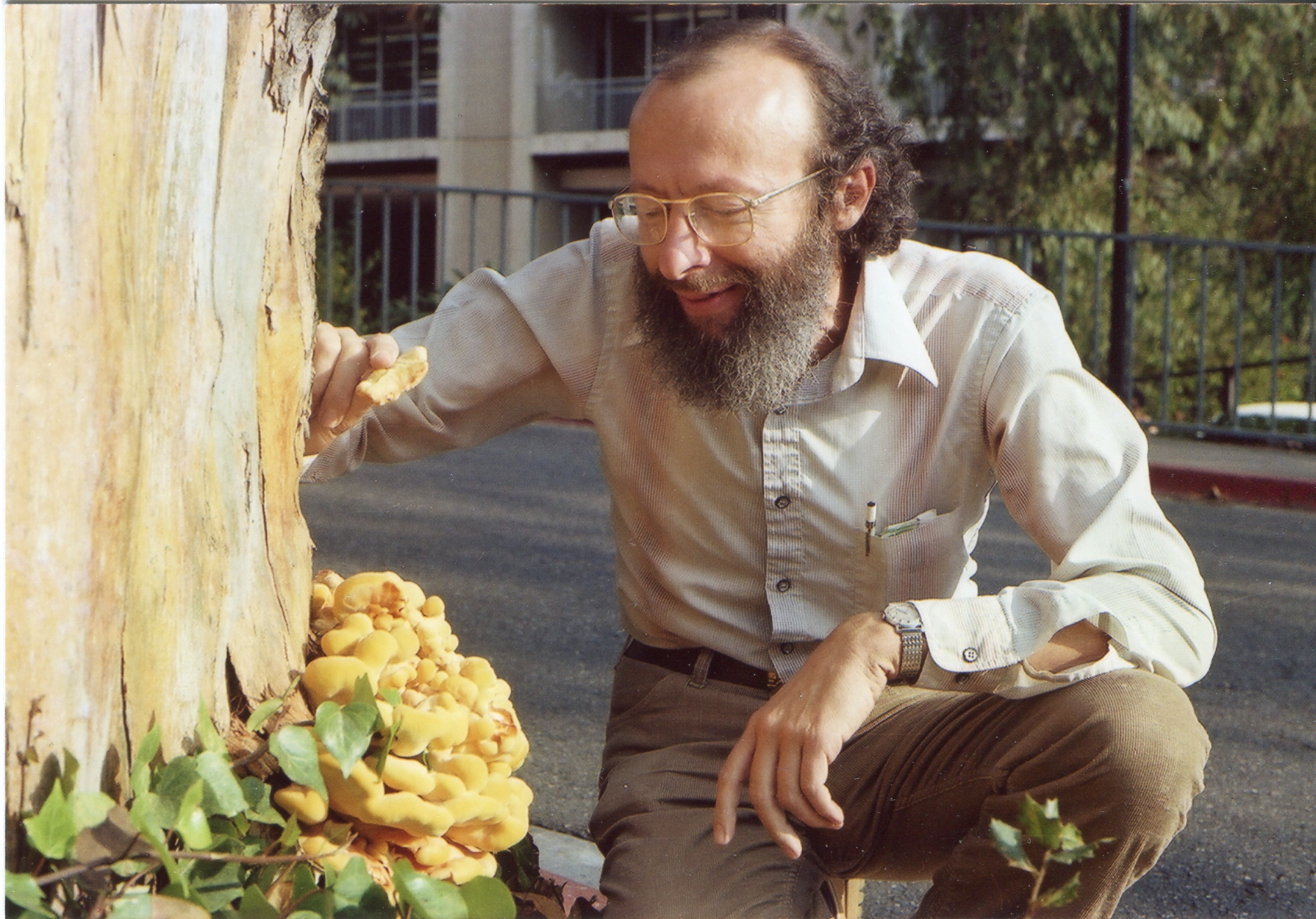 American mathematician/statistician Jack Kiefer at Berkeley, California examining fungi at a tree